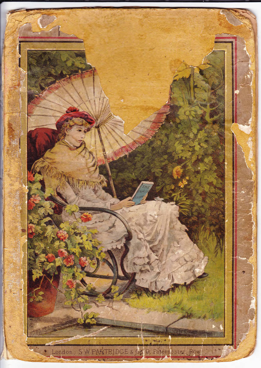 Magazine cover from The Family Friend, Volume XVIII, published in 1887. The Family Friend was published on a monthly basis by S. W. Partridge and Company of London. Public domain.